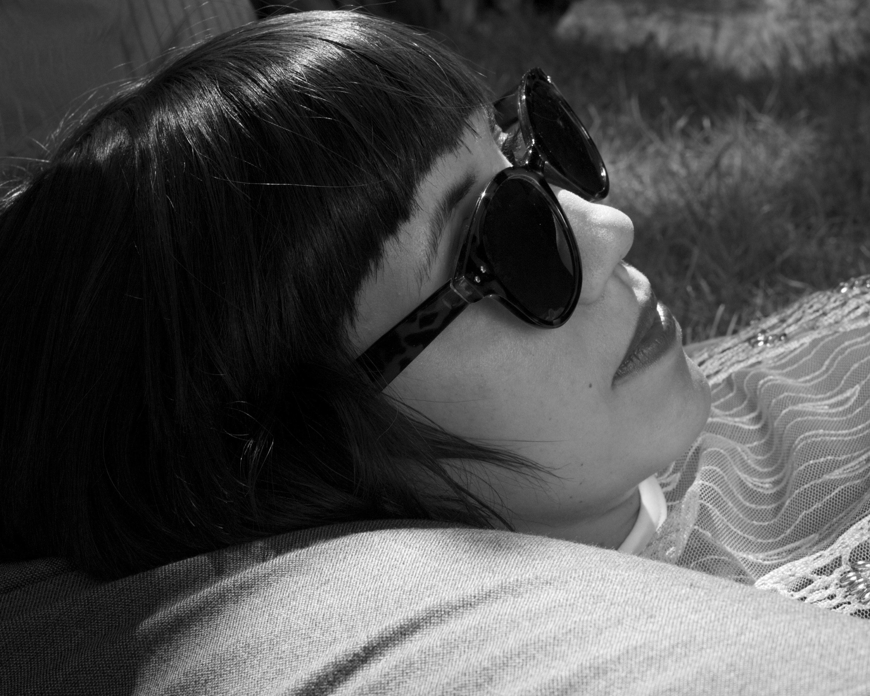 June Photo shoot